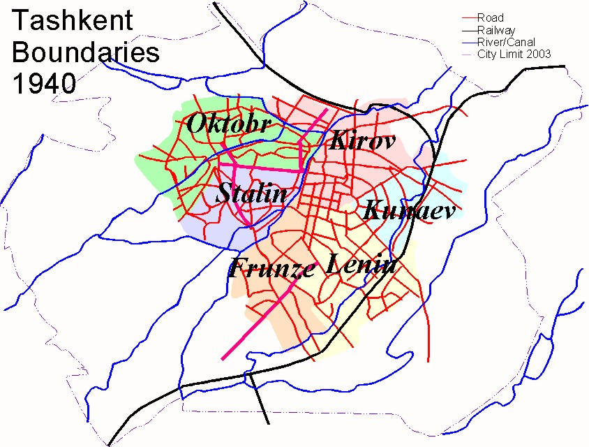 Map Of Tashkent in 1940 showing the boundaries of the city, main roads, railways and waterways (3 of 7)